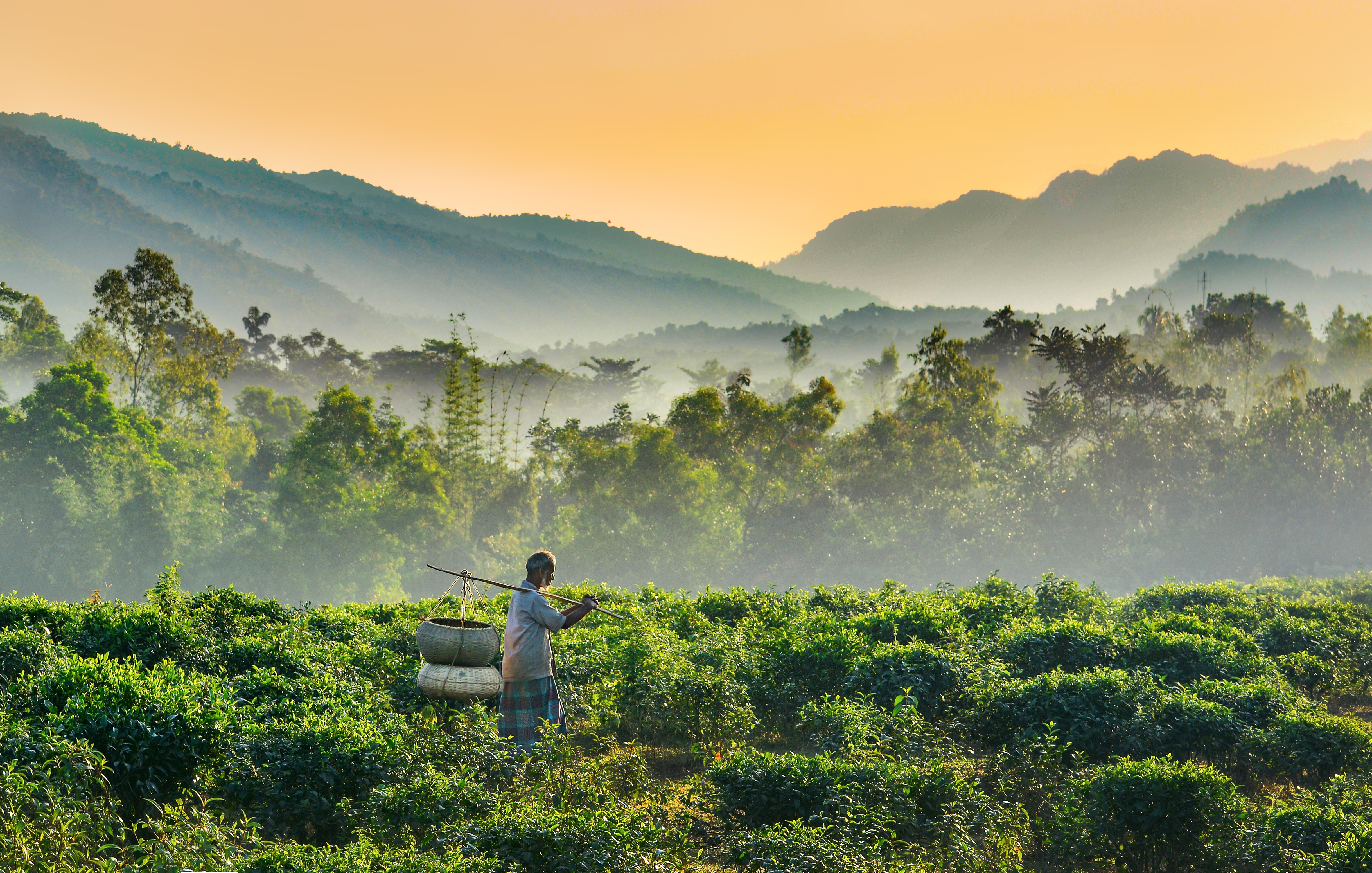 Old man carrying a yoke in the countryside of Jaflong, Sylhet, Bangladesh